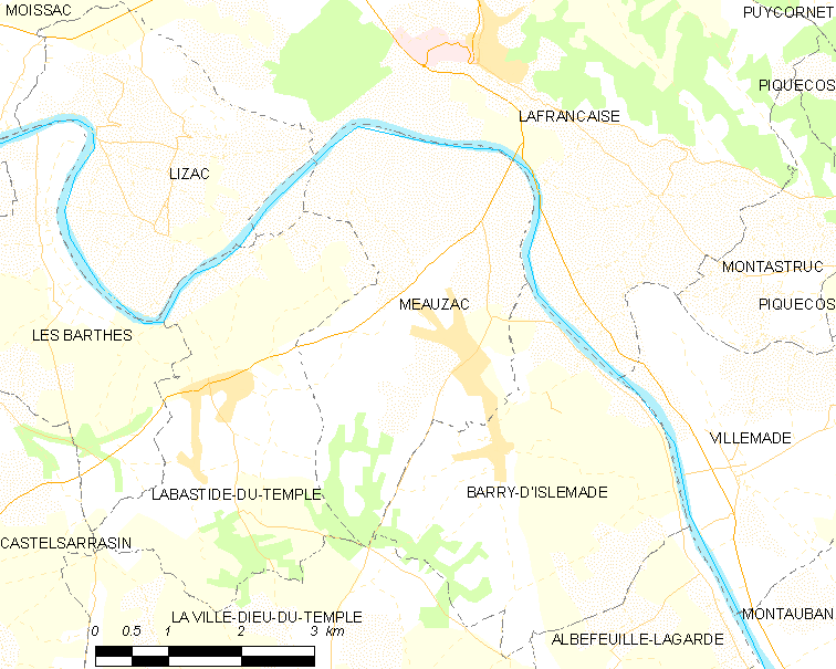 Map of French municipality Meauzac